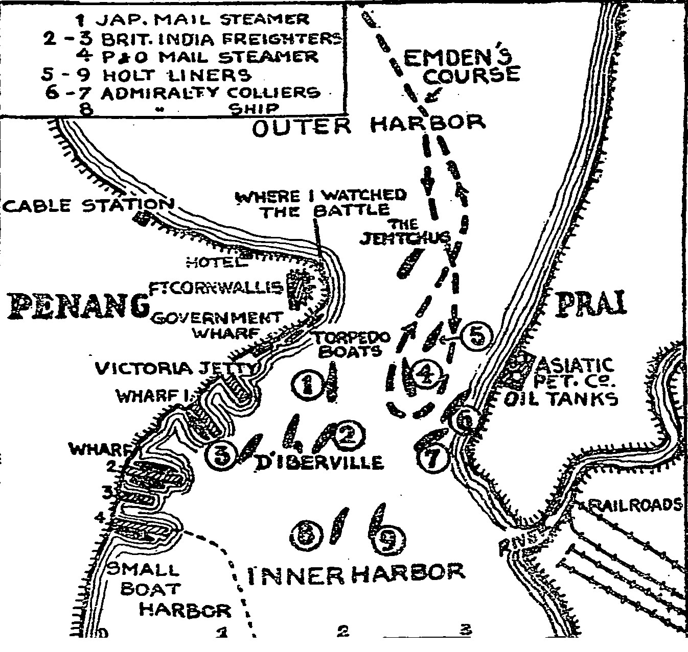 Map from the New York Times article "When the Emden Raided Penang", Dec. 20, 1914